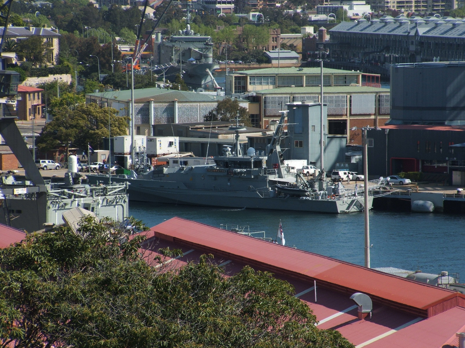 Photograph of HMAS Launceston, an Armidale class patrol boat of the Royal Australian Navy alongside at Garden Island, Sydney